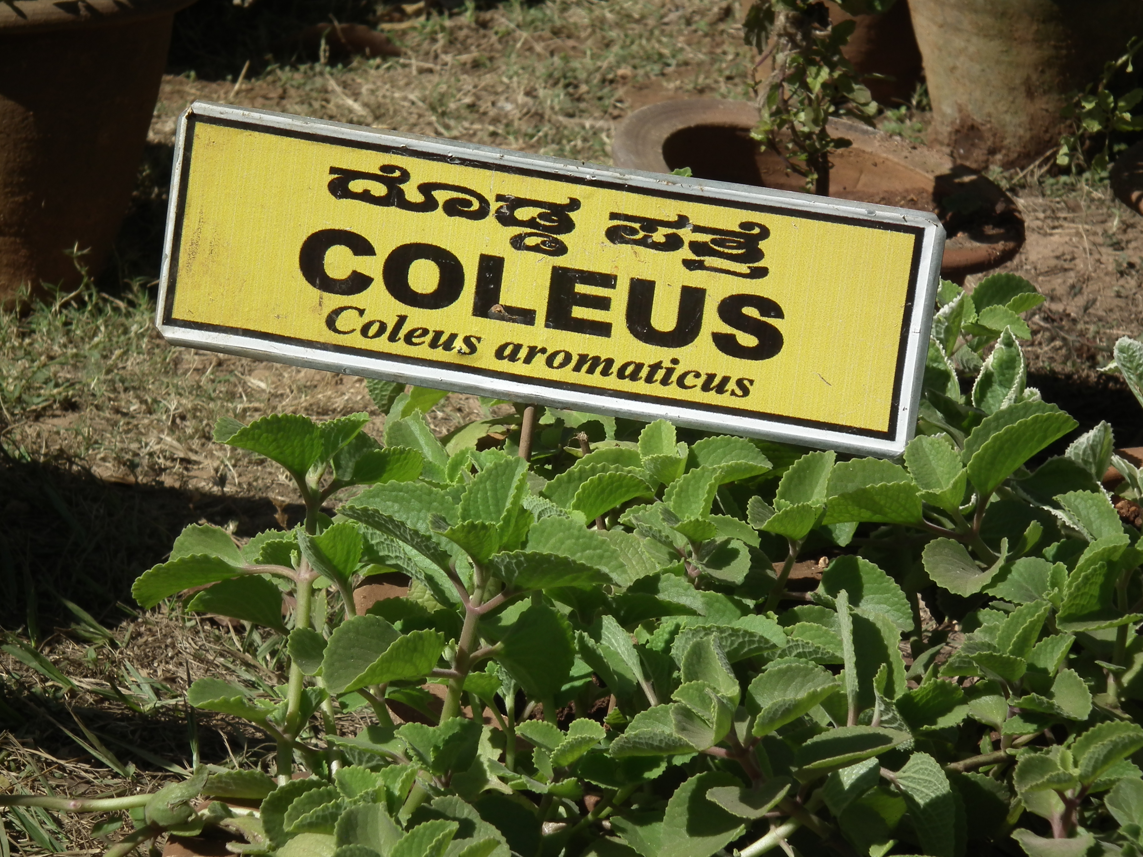 Coleus aromaticus from Lalbagh,Bangalore, India, during flowershow January 2012, .